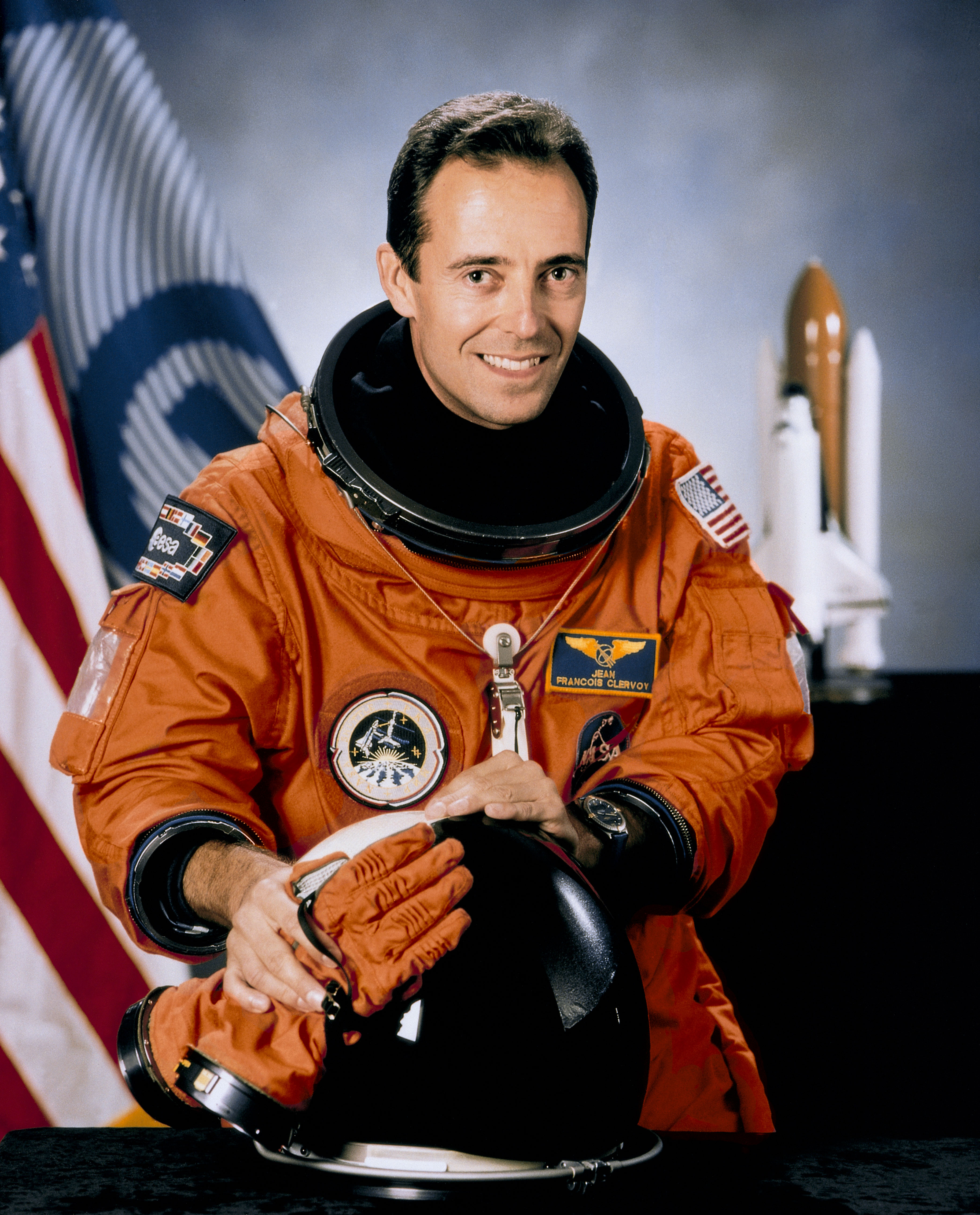 Portrait astronaut Jean-François Clervoy